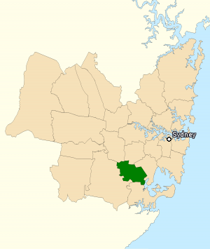 This image incorporates data that is: © Commonwealth of Australia (Australian Electoral Commission) 2009 Division of Banks 2010